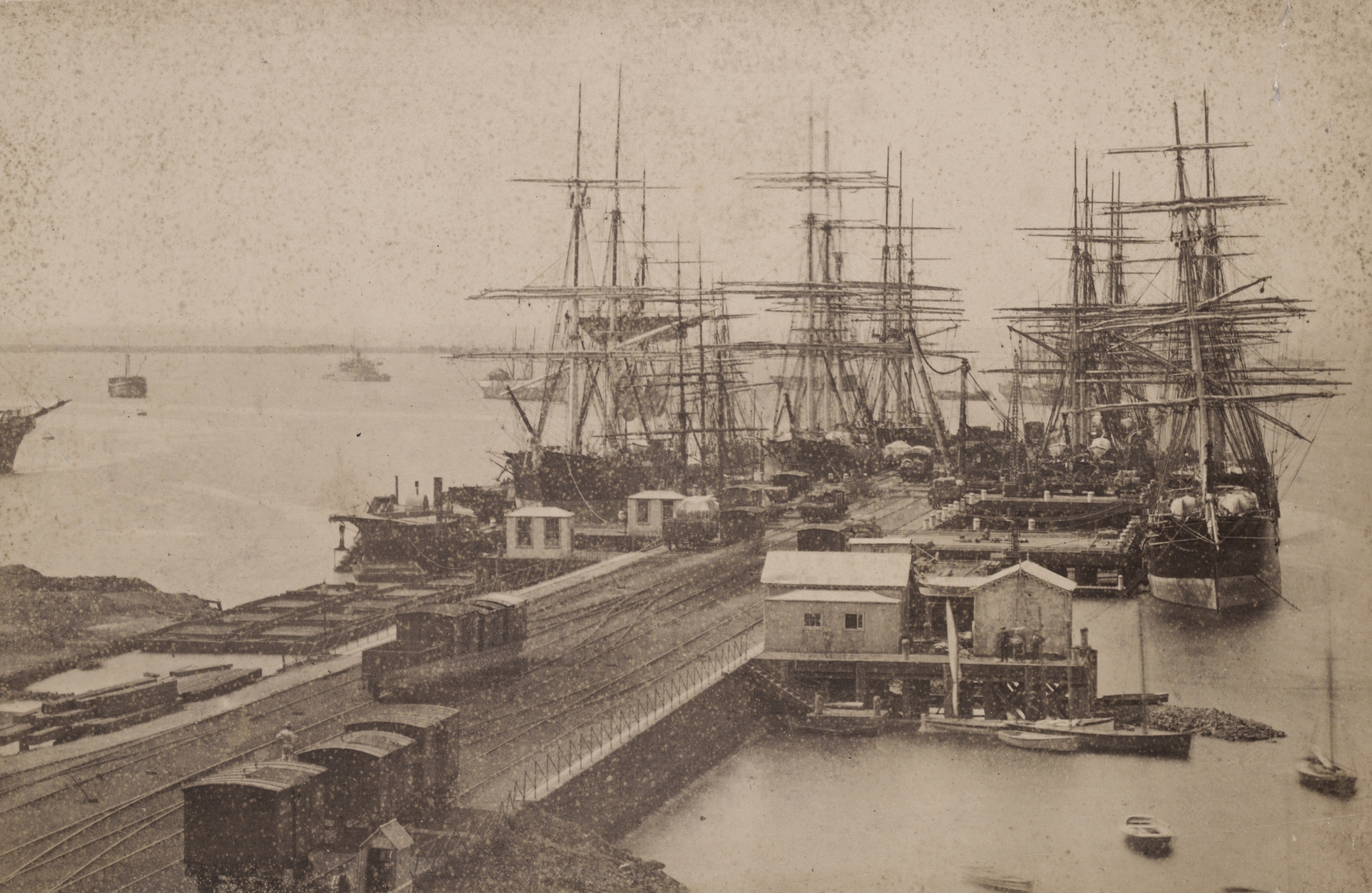 This image was probably taken on the same day as the image accessioned at H4026, and dated after 1883.